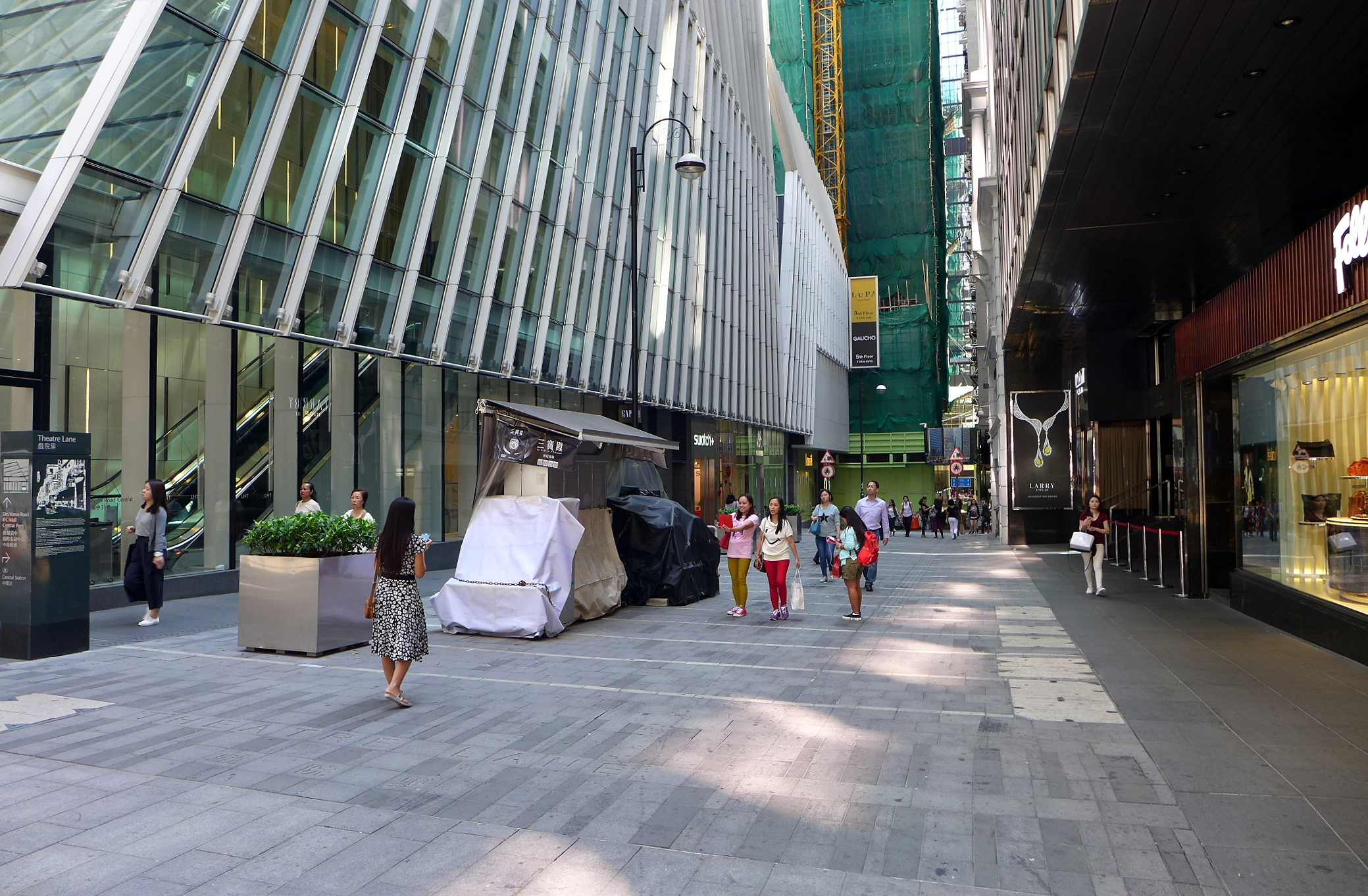 Theatre Lane